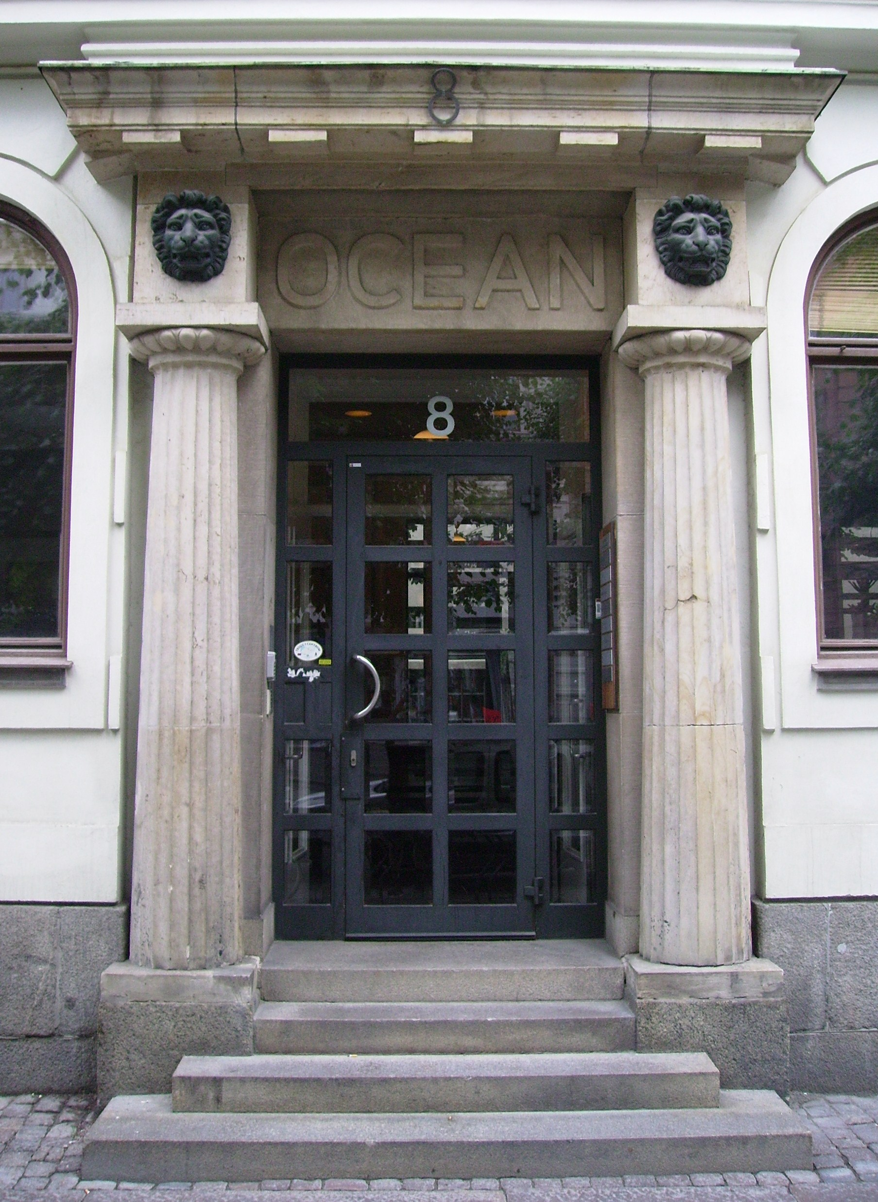 Västra Hamngatan 8, entrance to Ocean, former insurance company in Gothenburg.